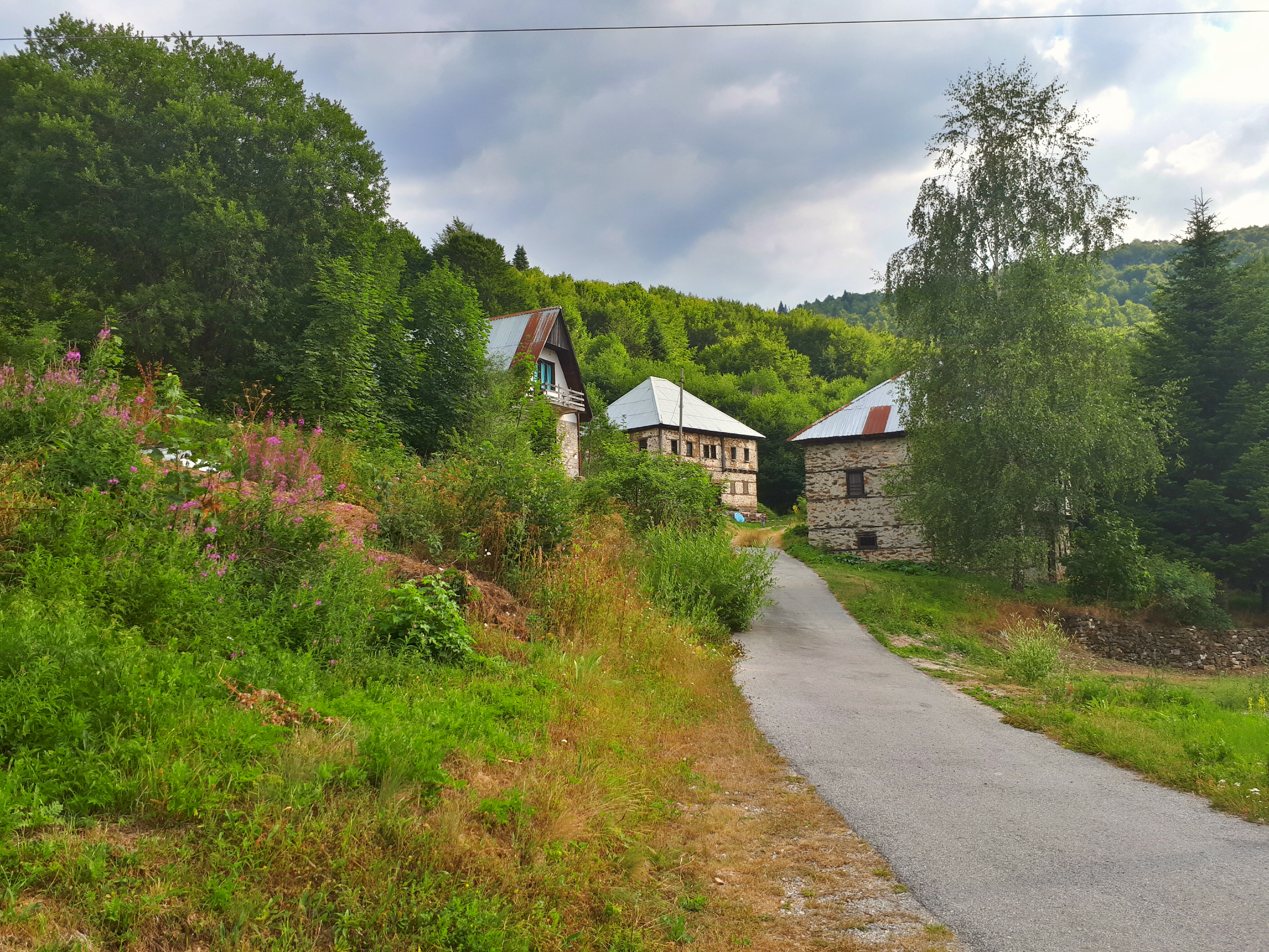 Taken during Wikiexpedition to Reka 2017